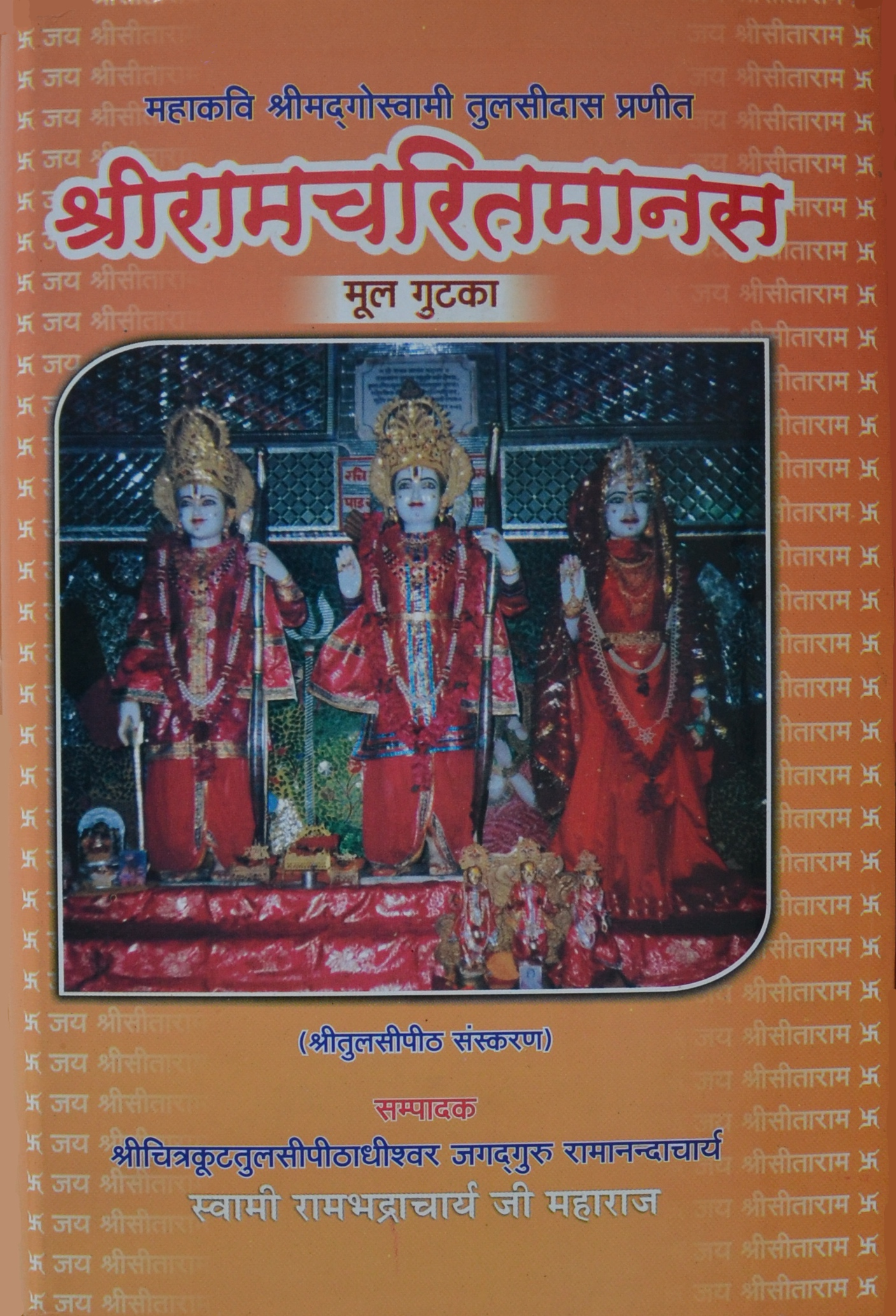 Cover page of Ramacaritamanasa Tulsi Pitha Samskarana